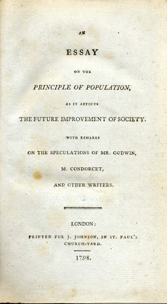 Title page of Thomas Robert Malthus's An Essay on the Principle of Population, J. Johnson, London, 1798. Immediate image source: Leeds University Library.